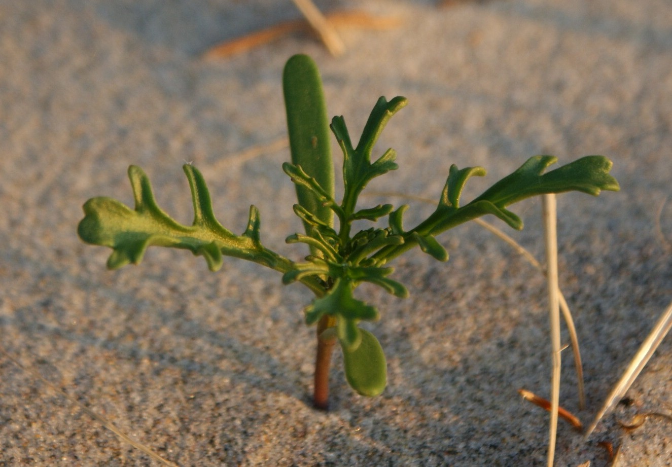 Young plant of Cakile maritima subsp. baltica. Wolin National Park (NW Poland)